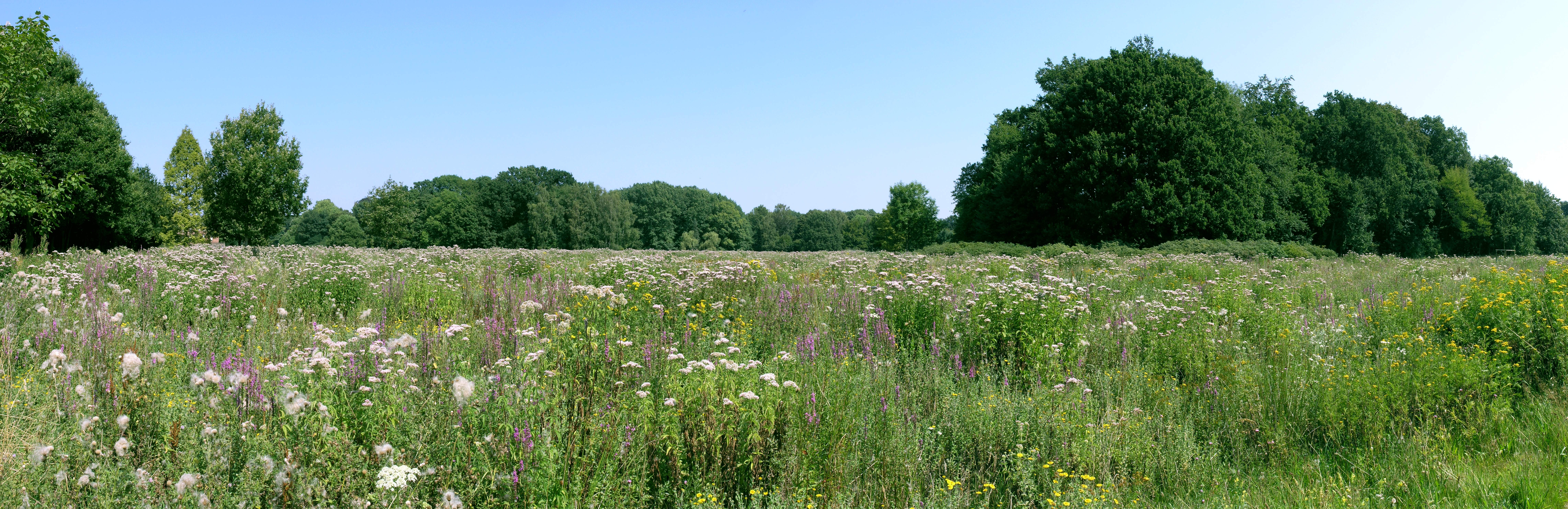 A beautiful park surrounds the Schloss, containing well manicured areas but also big areas with wild flowers.